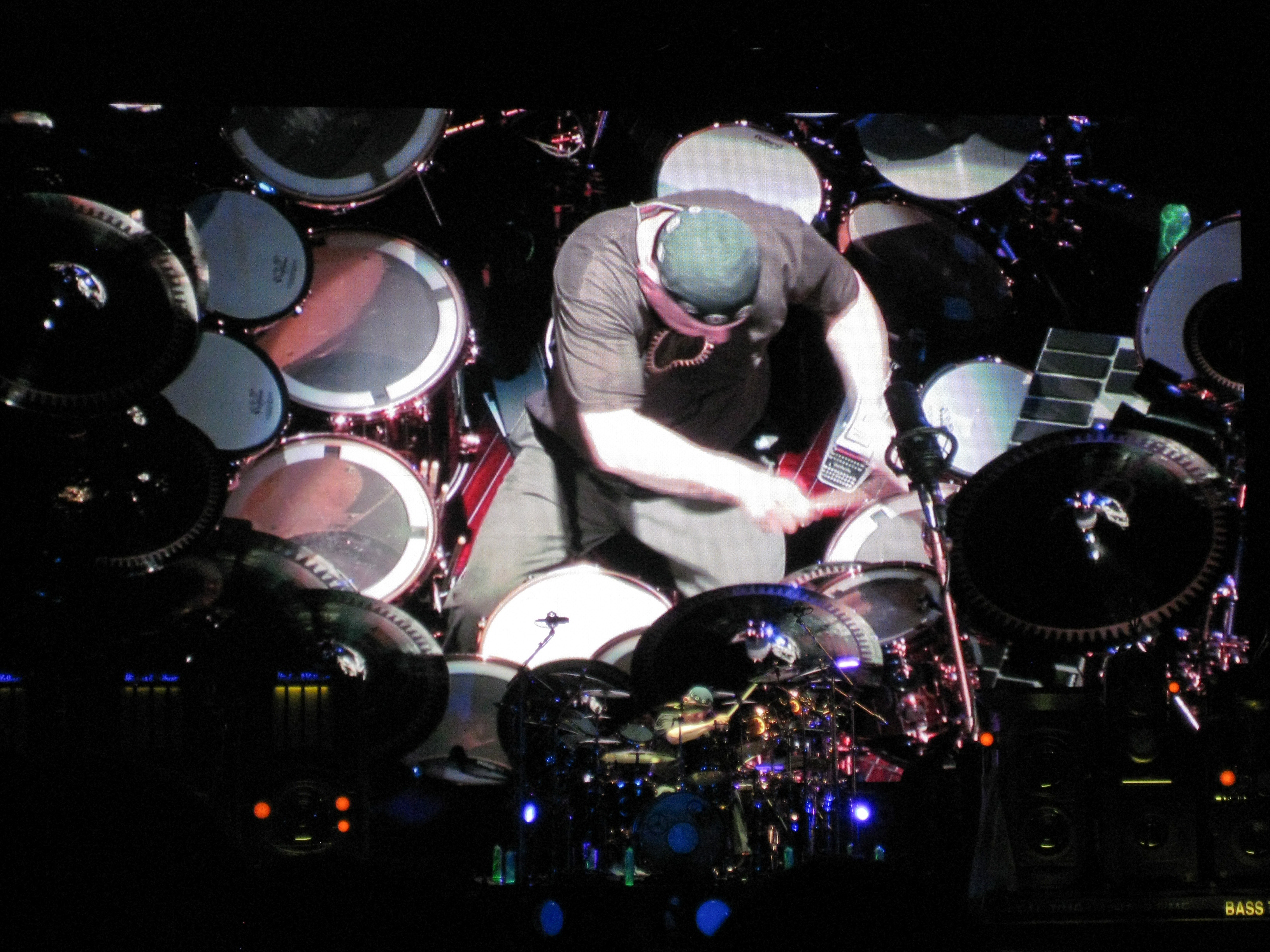 Rush at The Gorge July 2, 2011